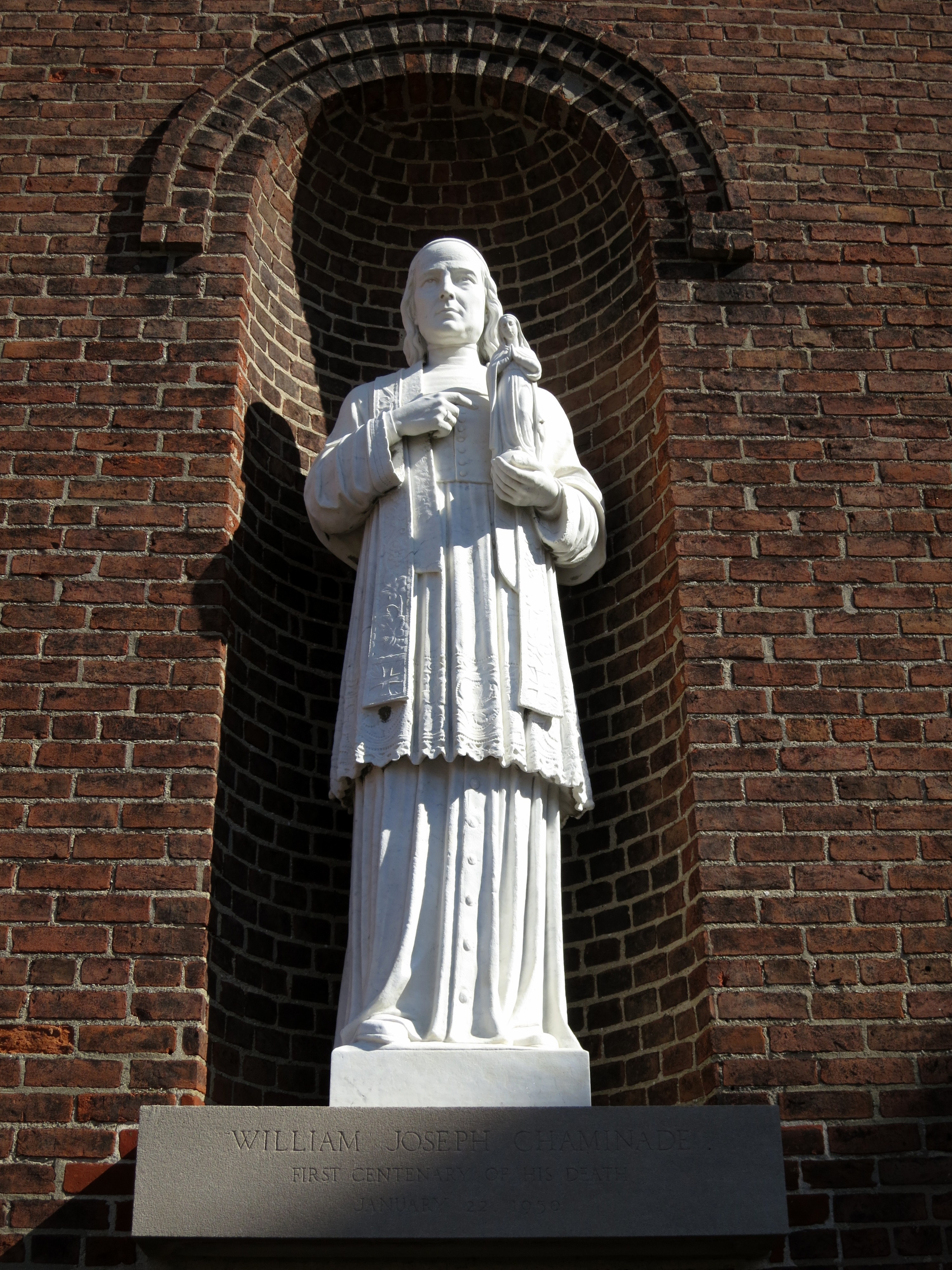 Chapel of the Immaculate Conception (University of Dayton) - Bl. William Joseph Chaminade statue